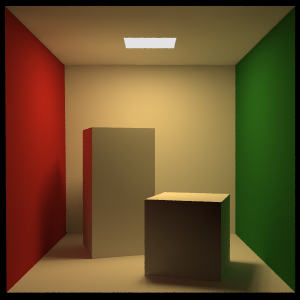 Cornell box, rendered in POV-Ray with the provided script (by Kari Kivisalo).